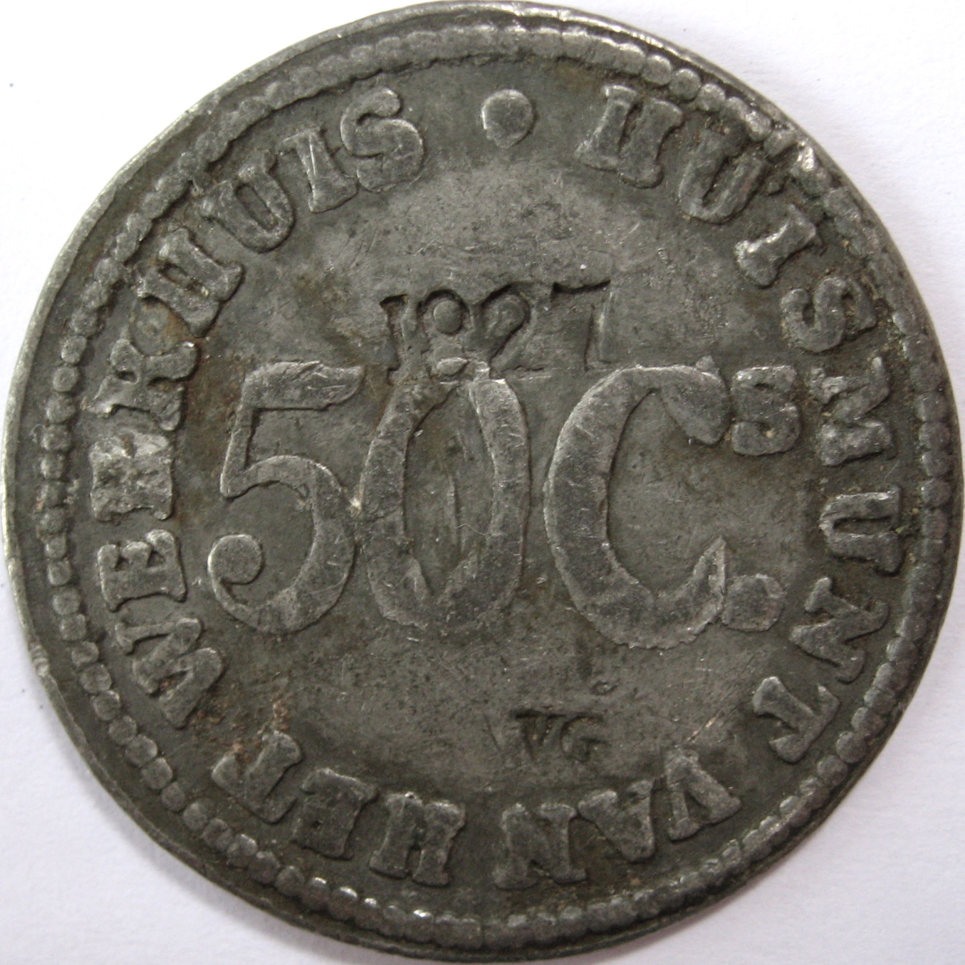 Coin werkhuis Amsterdam 50c